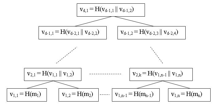 Picture of a hashtree